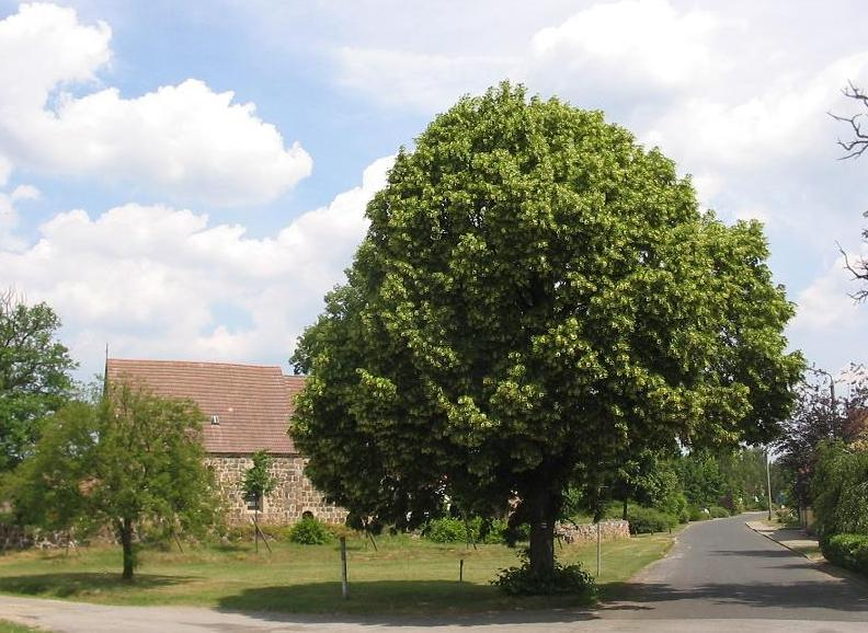 Preußnitz, church square with tilia. The village Preußnitz is a part of the village Kuhlowitz, an incorporated part of the town Belzig in Brandenburg, Germany.